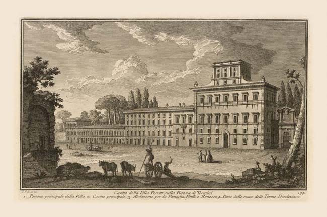 Engraving by Giuseppe Vasi showing the Villa Peretti, known later as the Villa Negroni, in Rome, Italy.